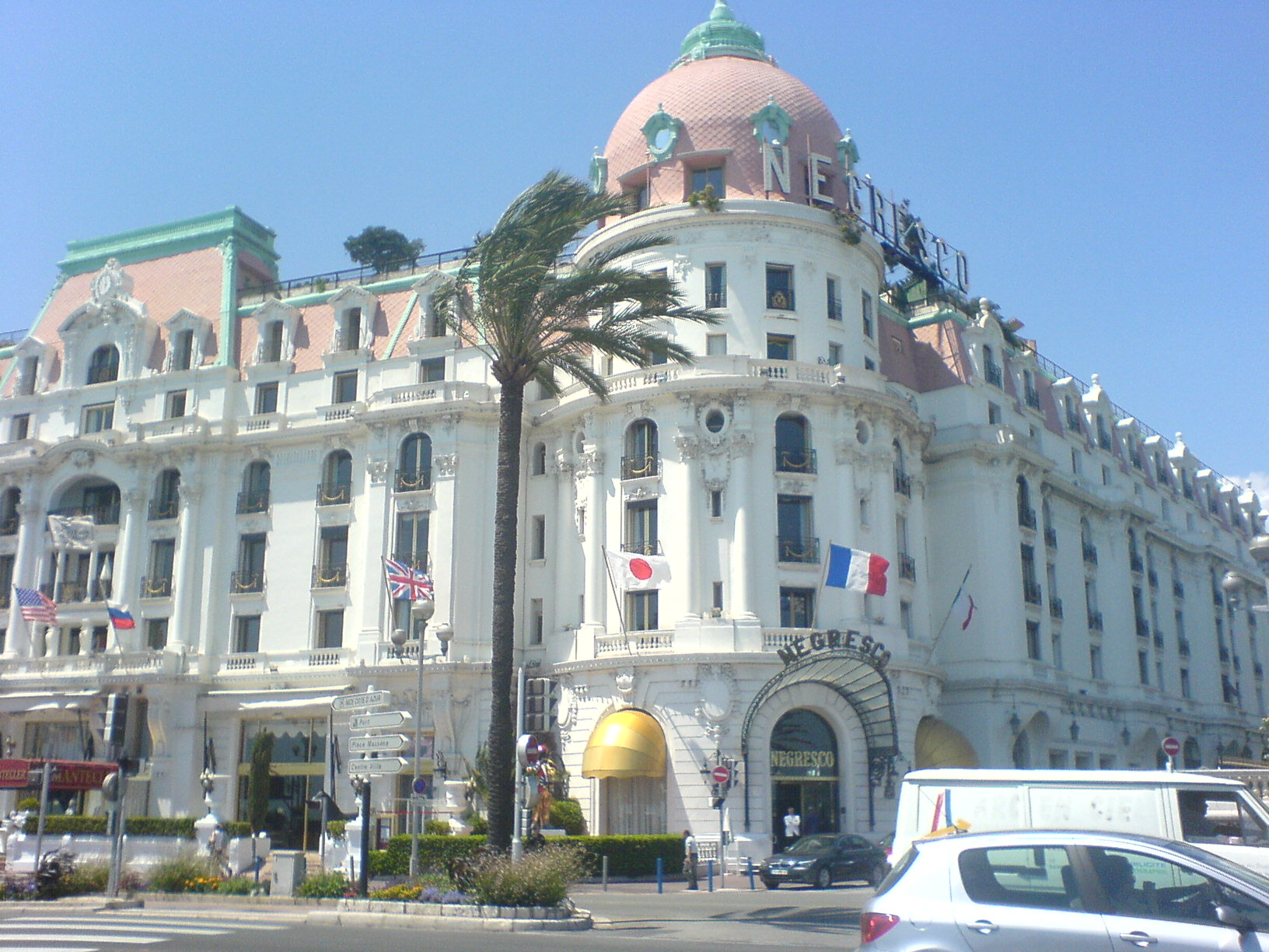 A photograph of the Hotel Negresco in Nice, south-east France.